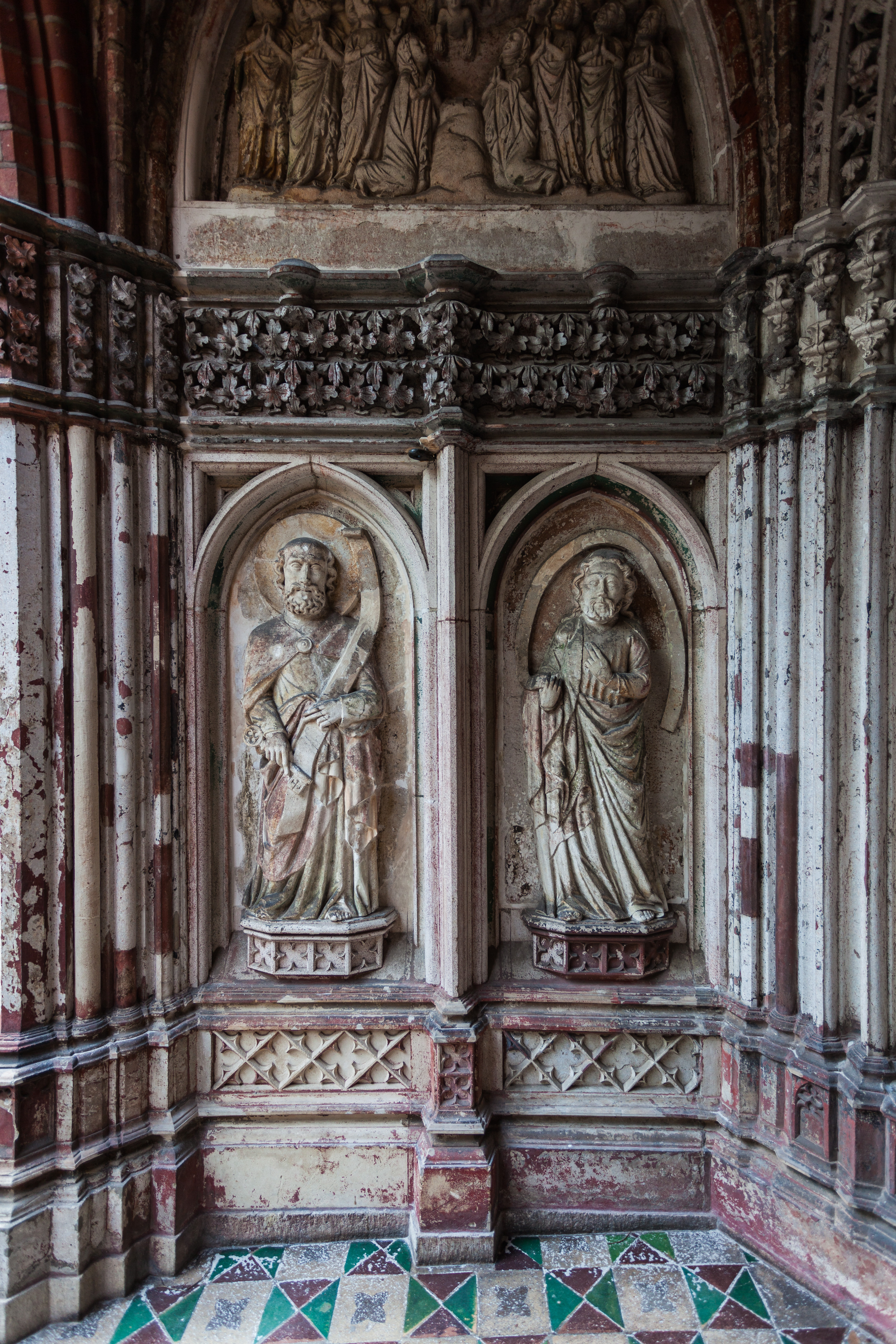 Malbork Castle, Poland